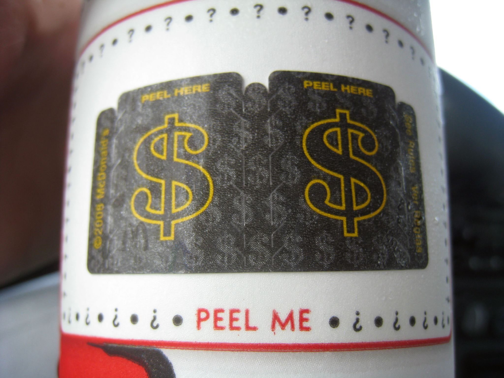 McDonald's Monopoly starts today!